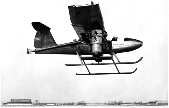 Bell Model 65 experimental tiltjet with original skid landing gear.